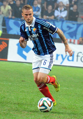 Alexander Faltsetas (cropped)